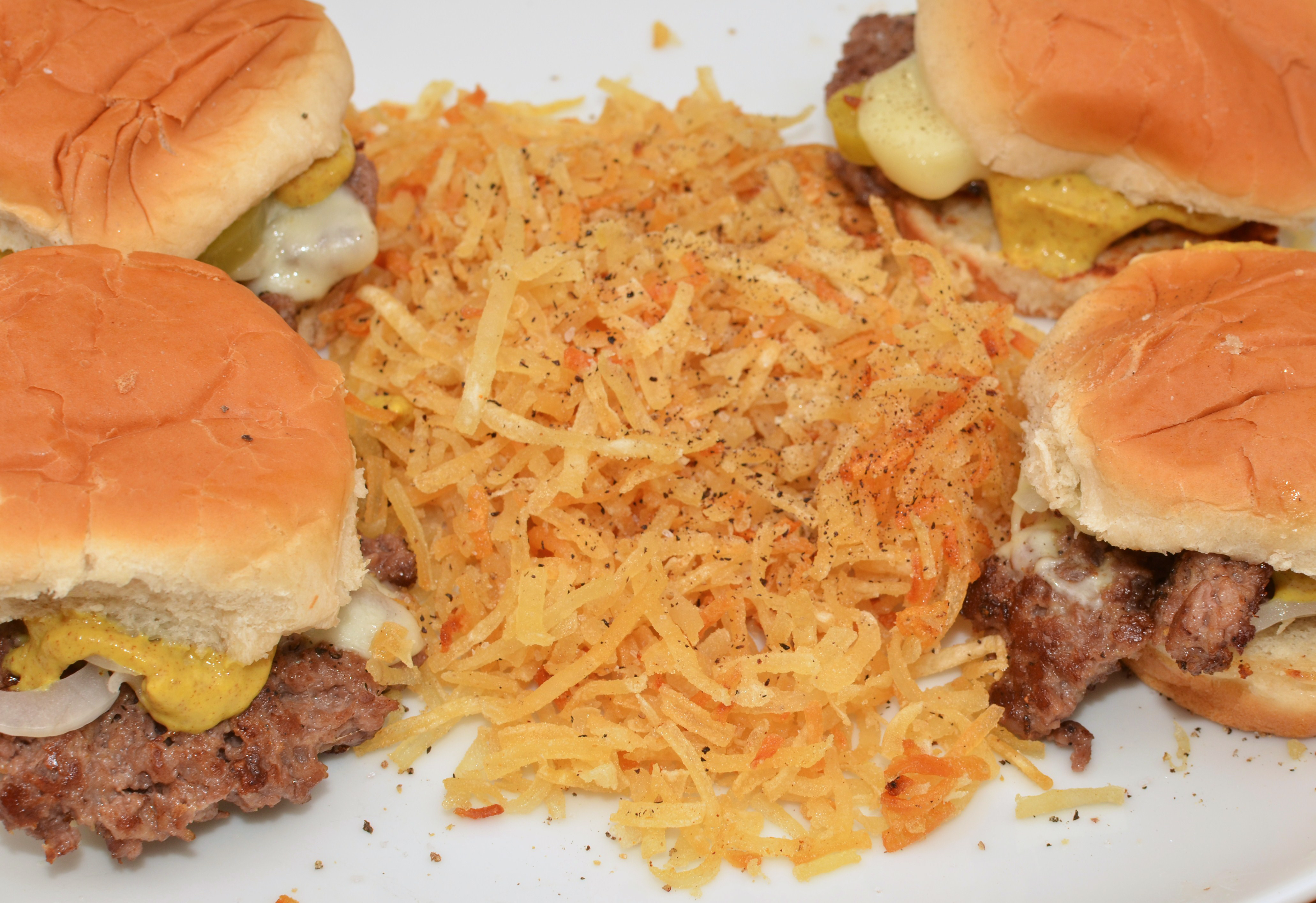 Mmm... sliders and deep fried hash browns